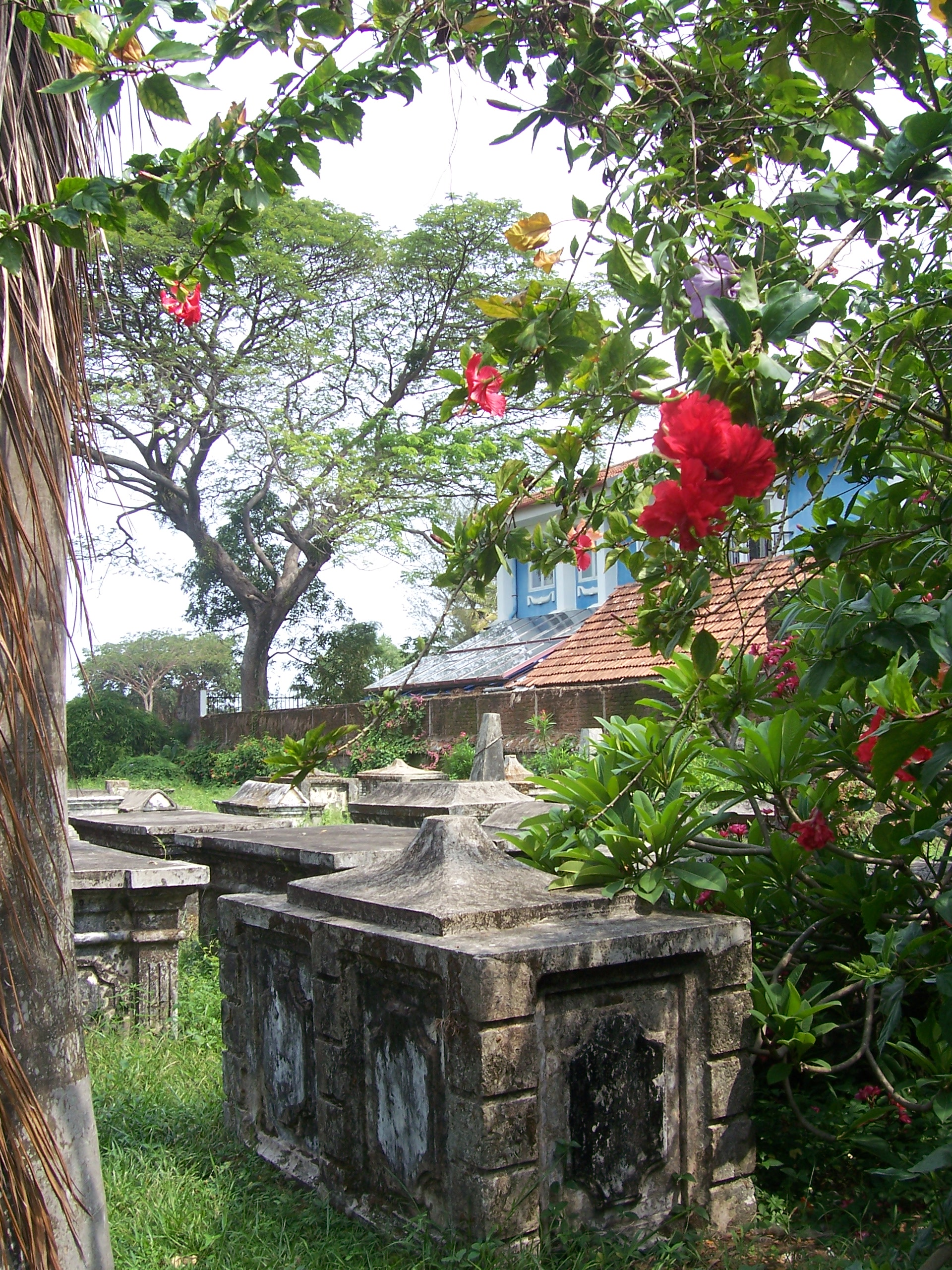 Dutch cemetery of Fort Kochi.